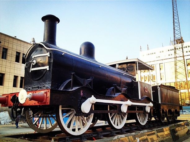 An old steam locomotive; one of the oldest steam locomotive in the world which can be found in Cairo. The Egyptian Railways is the second oldest railways in the world after England.